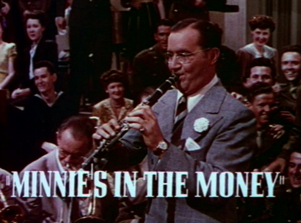 Cropped screenshot of Benny Goodman from the trailer for the film The Gang's All Here